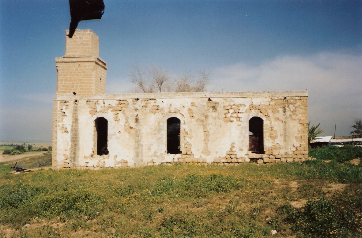 mosque of kofakha, israel